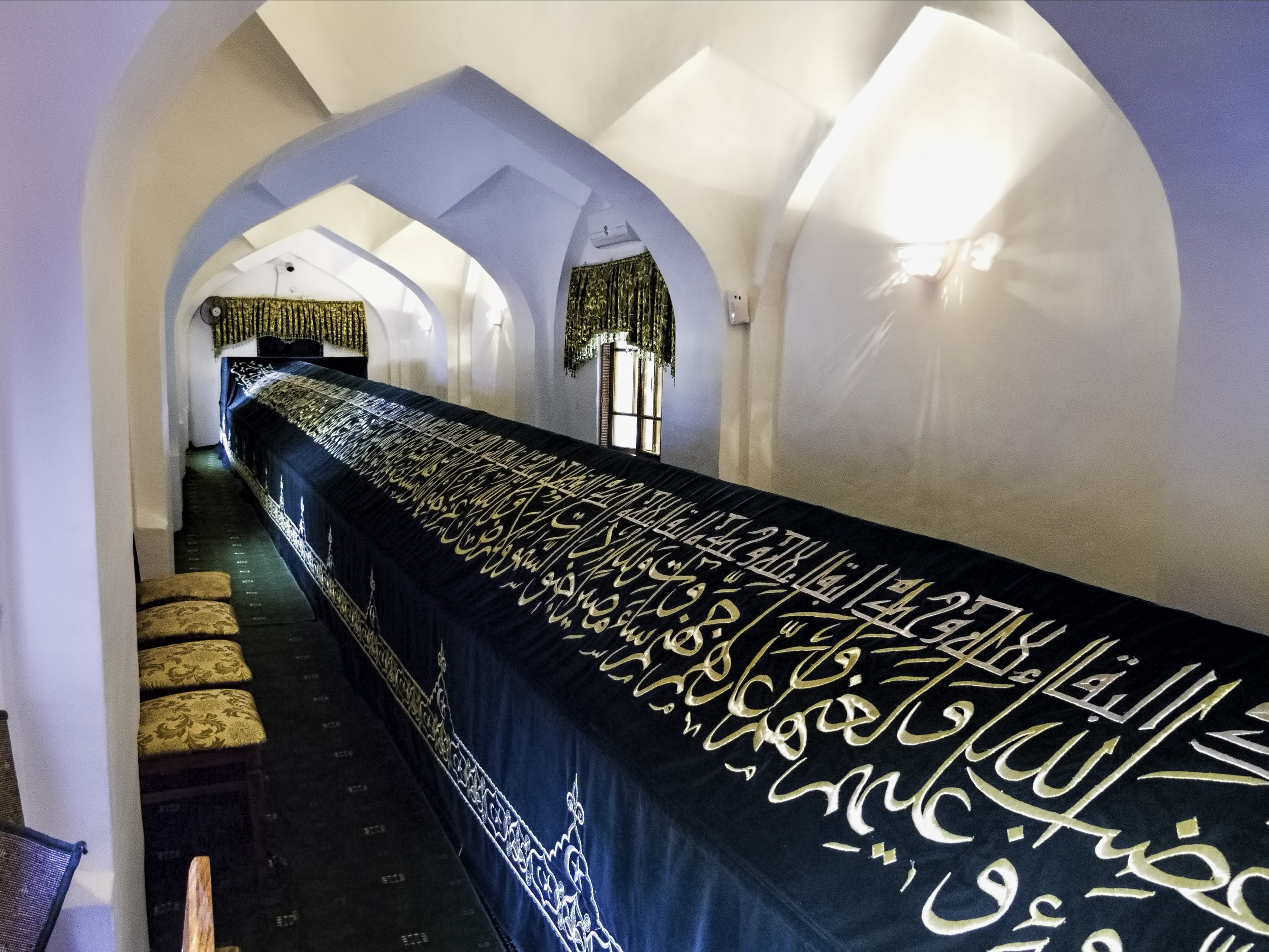 The sarcophagus for the Old Testament Prophet Daniel is 18 meters (59 feet) long because, legend has it, his body grows half an inch per year. His remains, which date to at least the 5th Century BCE, were brought here from Susa, Iran, by Tamerlane (Timur the Lame; 1336-1405) for better luck in his attempts to conquer Syria in 1400. (Or maybe the remains were brought from Syria following its conquest. Or perhaps just Daniel’s arm was brought from Mecca. Legends vary.) The current mausoleum was built in 1900. On Google Earth: Tomb of the Prophet Daniel 39°40'24.28"N, 66°59'40.68"E